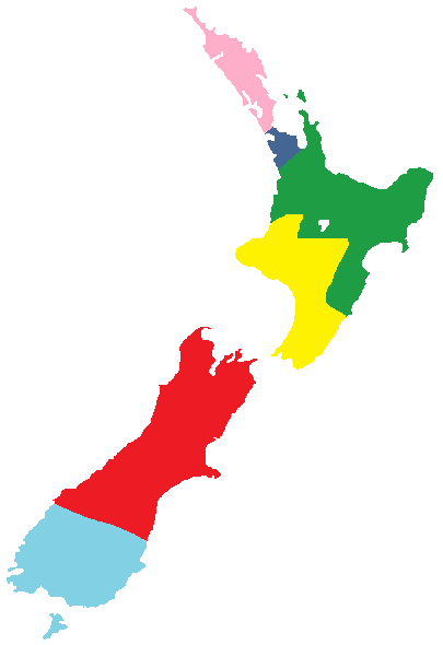 This map shows the regional centres of Tennis New Zealand, Pink - North, Navy blue - Auckland, Green - Waikato-Bay, Yellow - Central, Red - Canterbury and Blue - South.